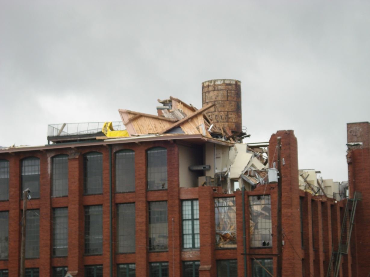 Image of Cotton Mills Loft Building heavily damaged by the Atlanta tornado on March 14, 2008. The building was one of the most heavily damaged by the storm which tore through the downtown core. The tornado was rated a high-end EF2 with this building sustaining EF2 damage. Courtesy of NWS Atlanta.